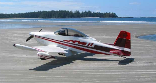 Mustang II C-GAIF on Vargas Island Beach